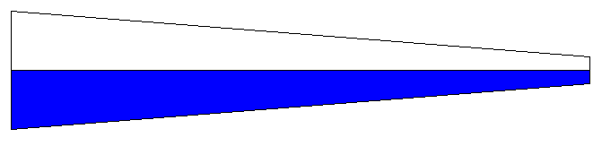 House master pennant of Uusimaa